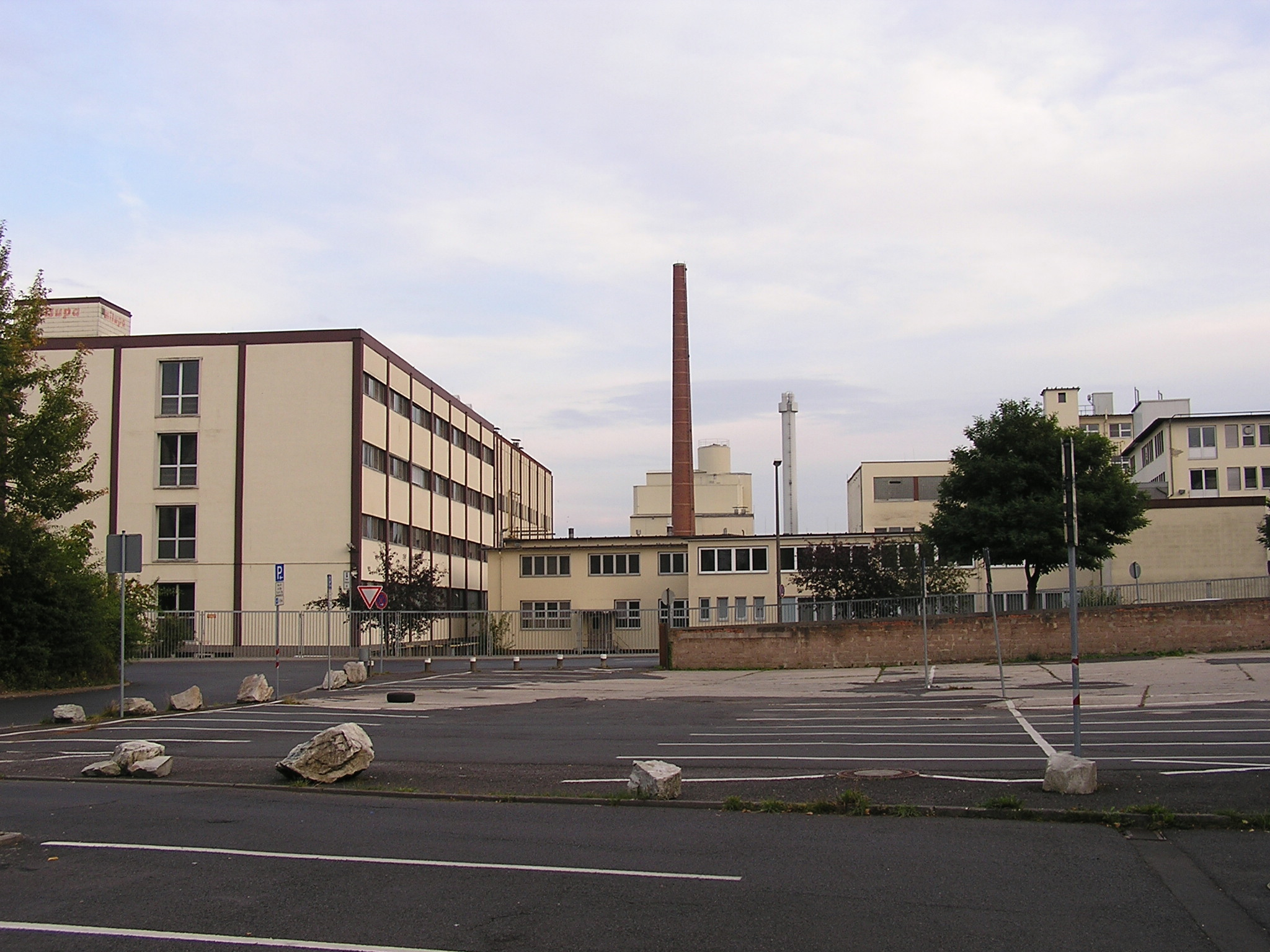 The Milupa company in Friedrichsdorf